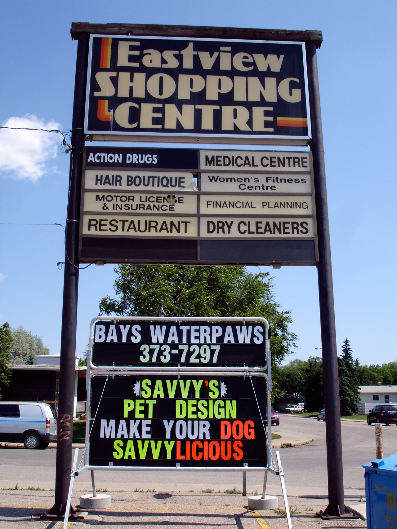 Eastview Shopping Centre, a strip mall in the Eastview neighbourhood of Saskatoon, Saskatchewan, Canada.